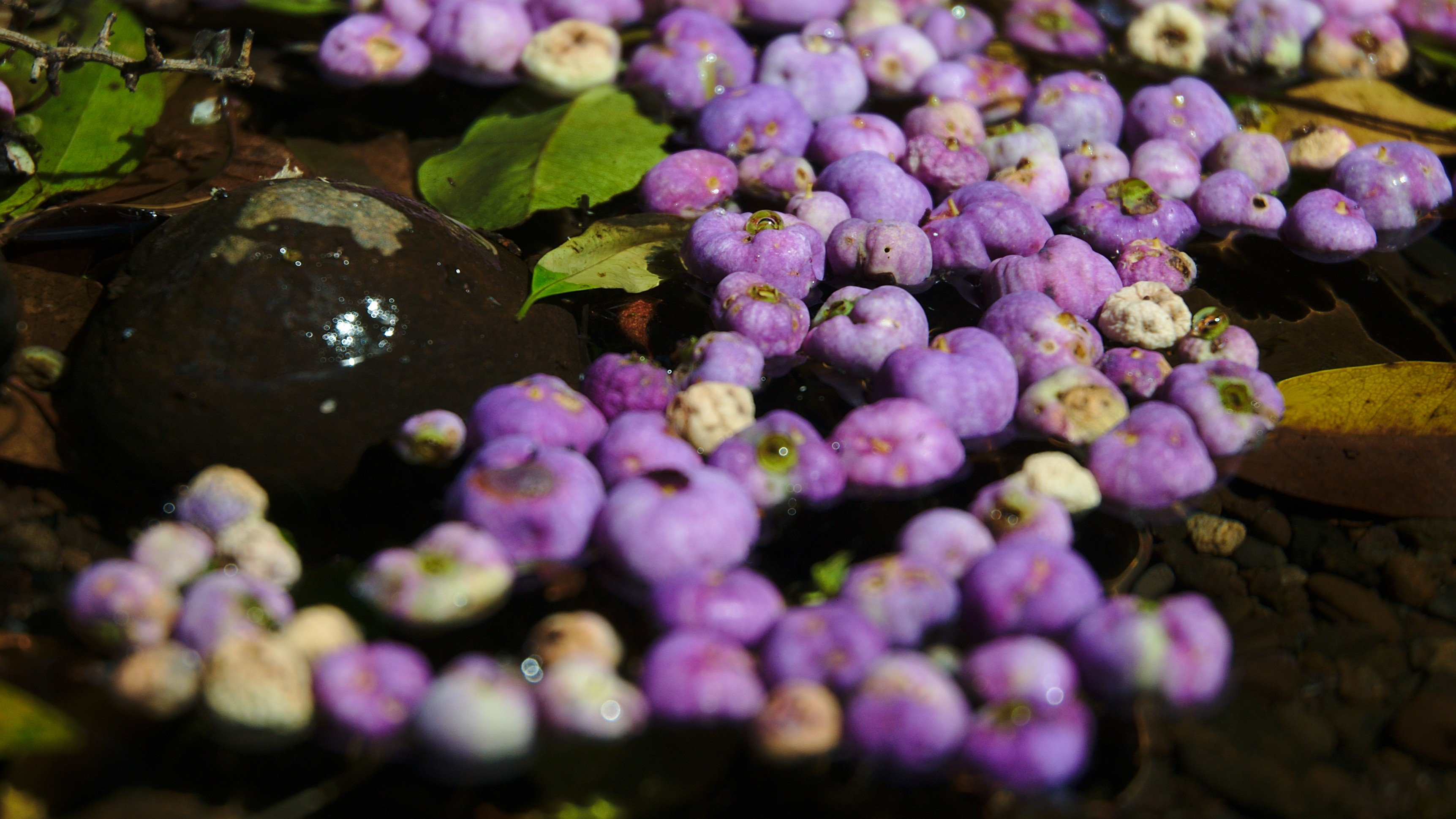 A mature Lilly Pilly, Giant Water Gum (Syzygium francisii) spread its branches over Sawpit Creek, in the Border Ranges National Park. It dropped prodigious quantities of fruit, which floated down stream and collected in beautiful pink rafts, such as this.